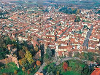 Panoramic view of San Colombano al Lambro, in the Province of Milan.